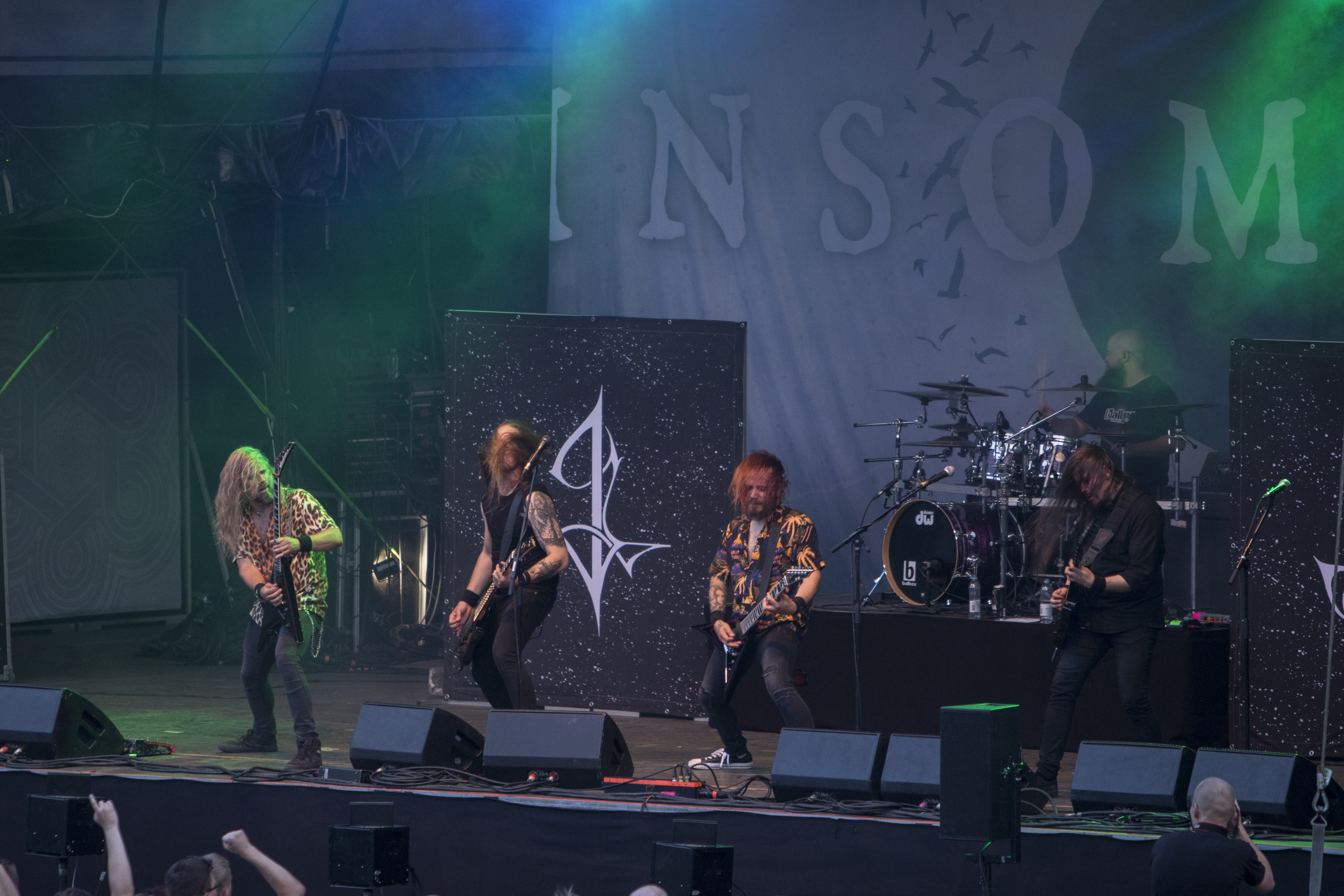 Insomnium at John Smith 2019 festival in Peurunka, Finland